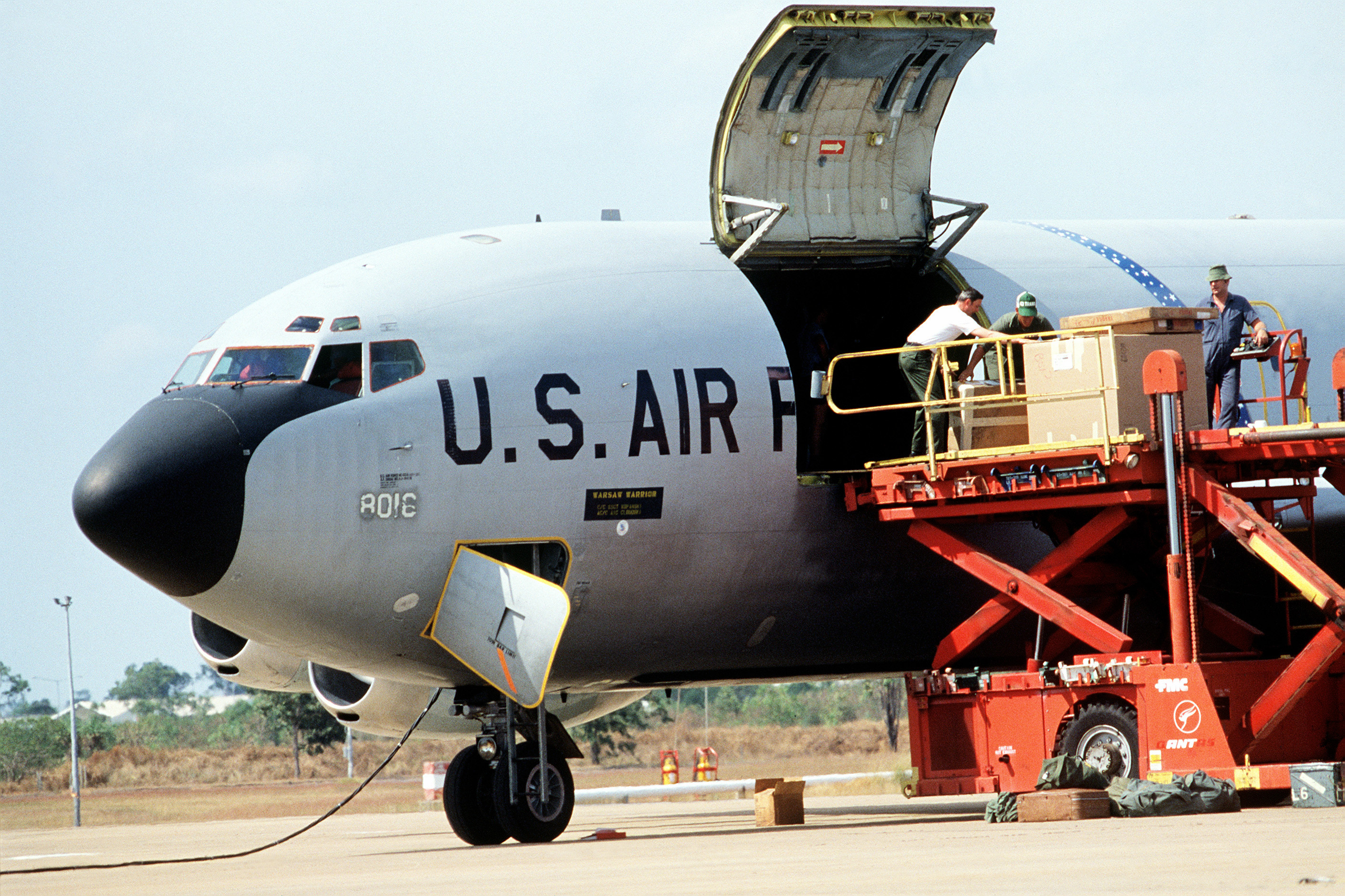 Boeing KC-135A Stratotanker cargo door, crew entry door Original caption: United States and Royal Australian Air Force members unload cargo from a KC-135A Stratotanker aircraft. The aircraft, assigned to the 906th Air Refueling Squadron, 43rd Strategic Wing, Pacific Task Force, is participating in Exercise Glad Customer '82.